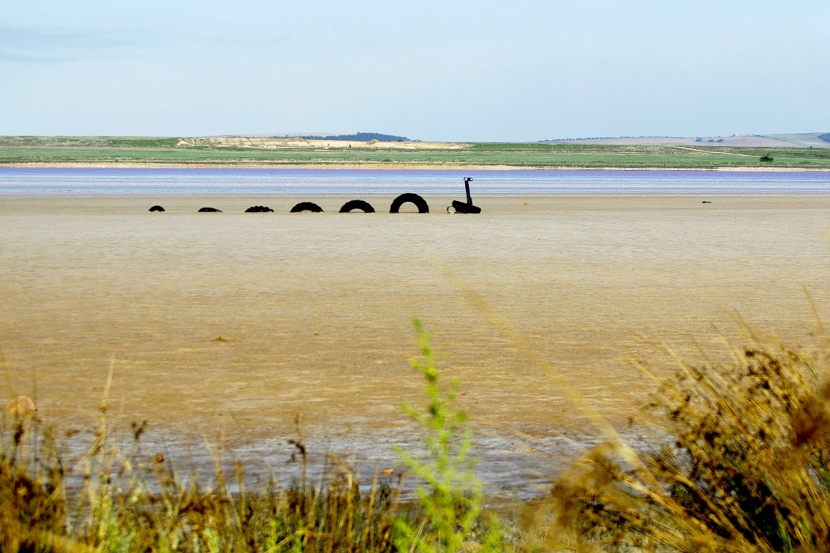 Lake Bumbunga, South Australia, showing the "Loch Eel" sculpture made of rubber typres and plastic. The photo was taken from Lochiel eastwards towards the locality of Bumbunga. The sculpture was erected in the 1970s as an allusion to the Loch Ness monster.